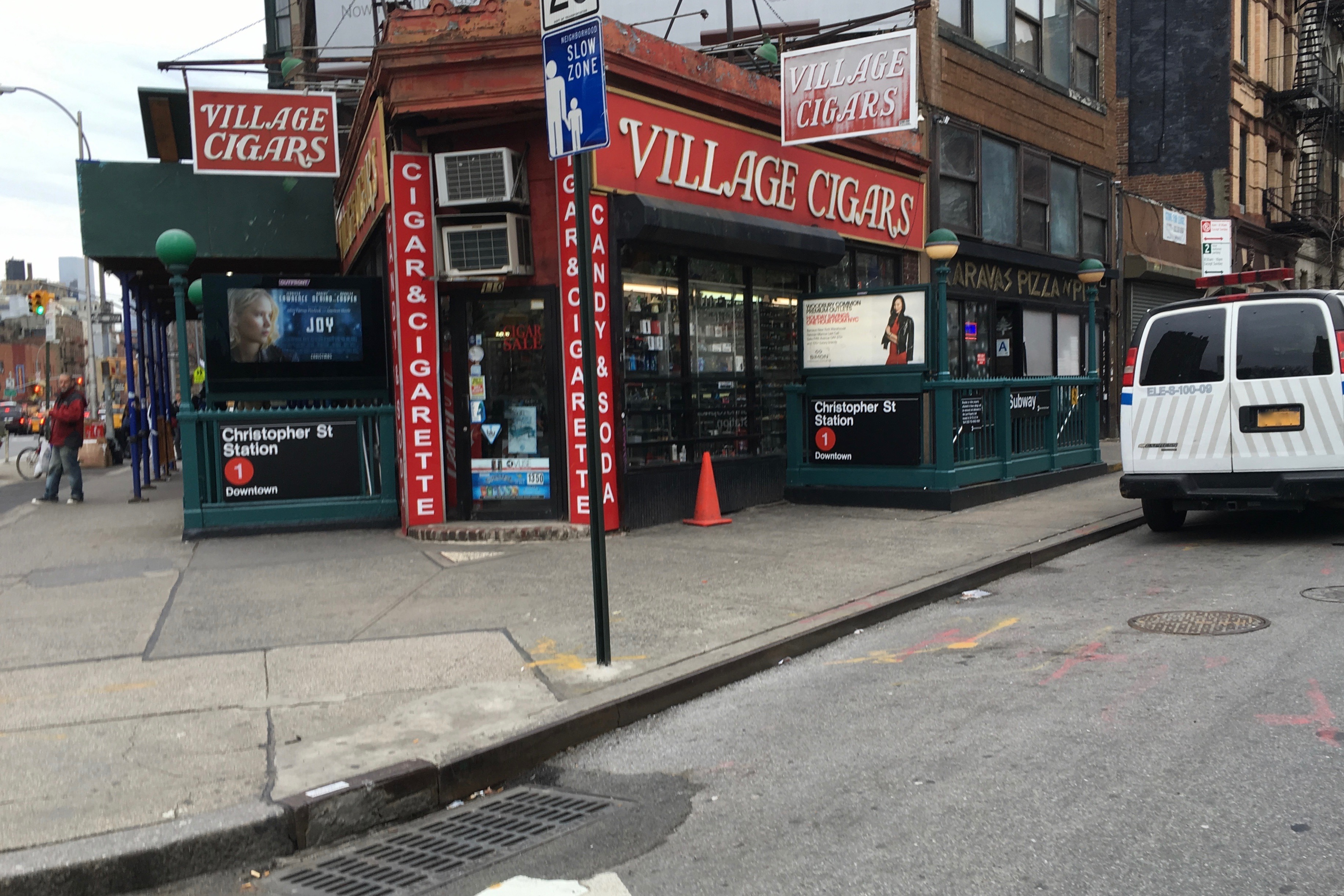 SW corner stairs at Christopher Street - Sheridan Square on the 7th Avenue line. Note the presence of the Hess triangle on the ground in front of the doorstep.